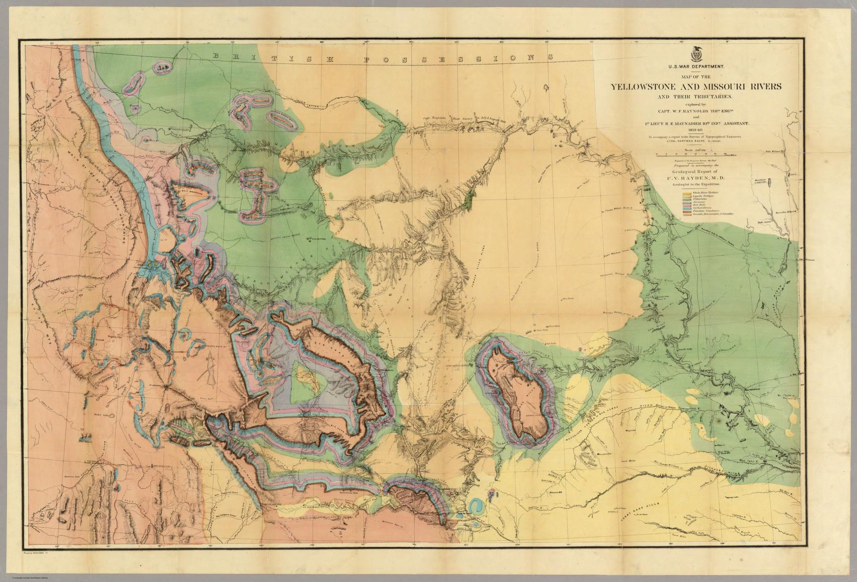 U.S. War Department Map Of The Yellowstone And Missouri Rivers And Their Tributaries explored by Capt. W.F. Raynolds Topl. Engrs. and 1st Lieut. H.E. Maynadier 10th Infy. Assistant. 1859-60. To accompany a report to the Bureau of Topographical Engineers. Lt. Col. Harman Bache in charge. Engraved in the Engineer Bureau War Dept. Prepared to accompany the Geological Report of F.V. Hayden M.D. ... Printed by Julius Bien, N.Y.